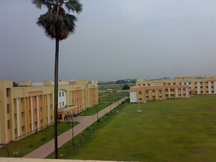 Bit patnaHostel